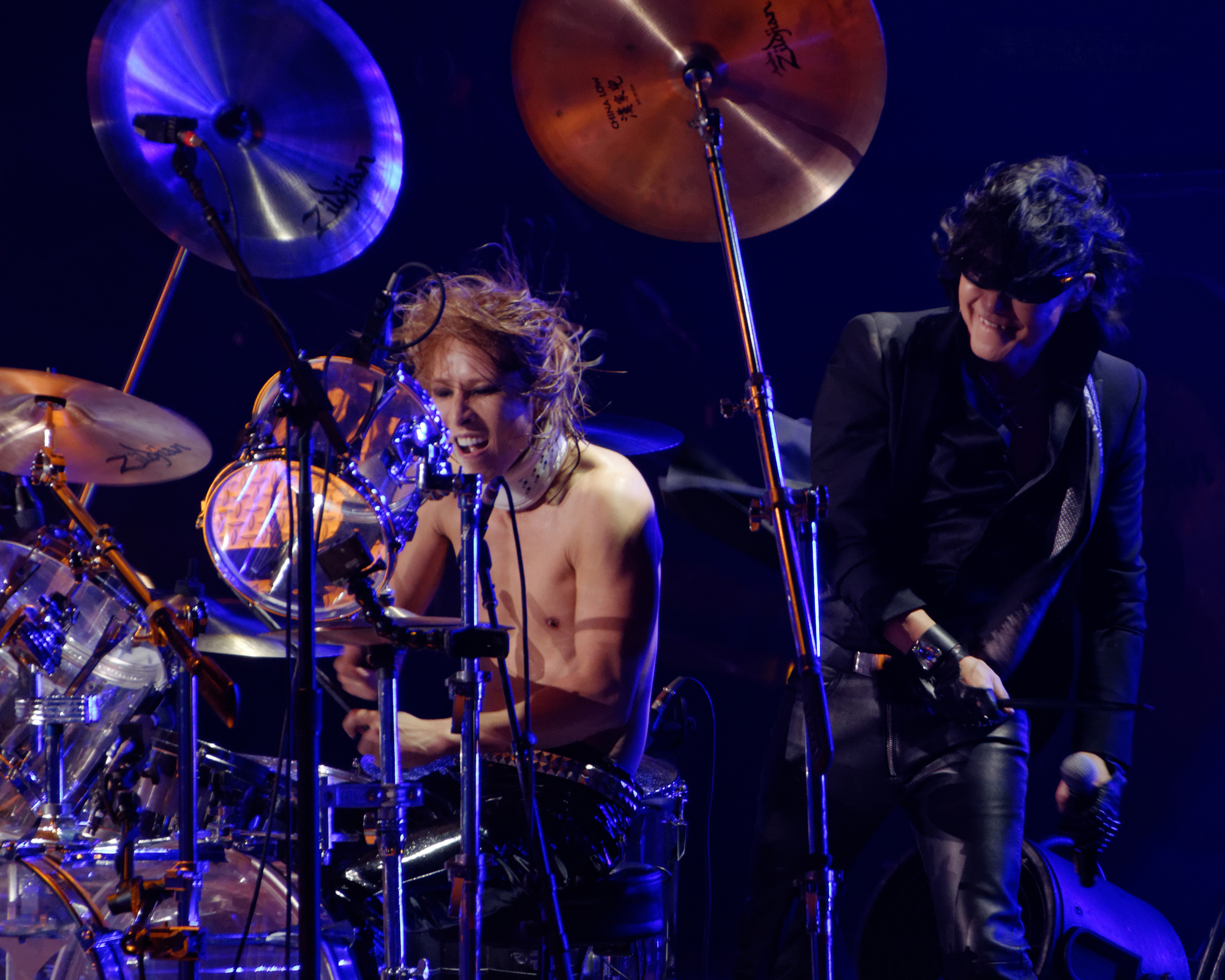 X Japan performing live at Madison Square Garden in New York City on Saturday October 11th, 2014. X Japan is Japan's biggest and most famous rock band, and this was their debut performance at the historic NYC venue.